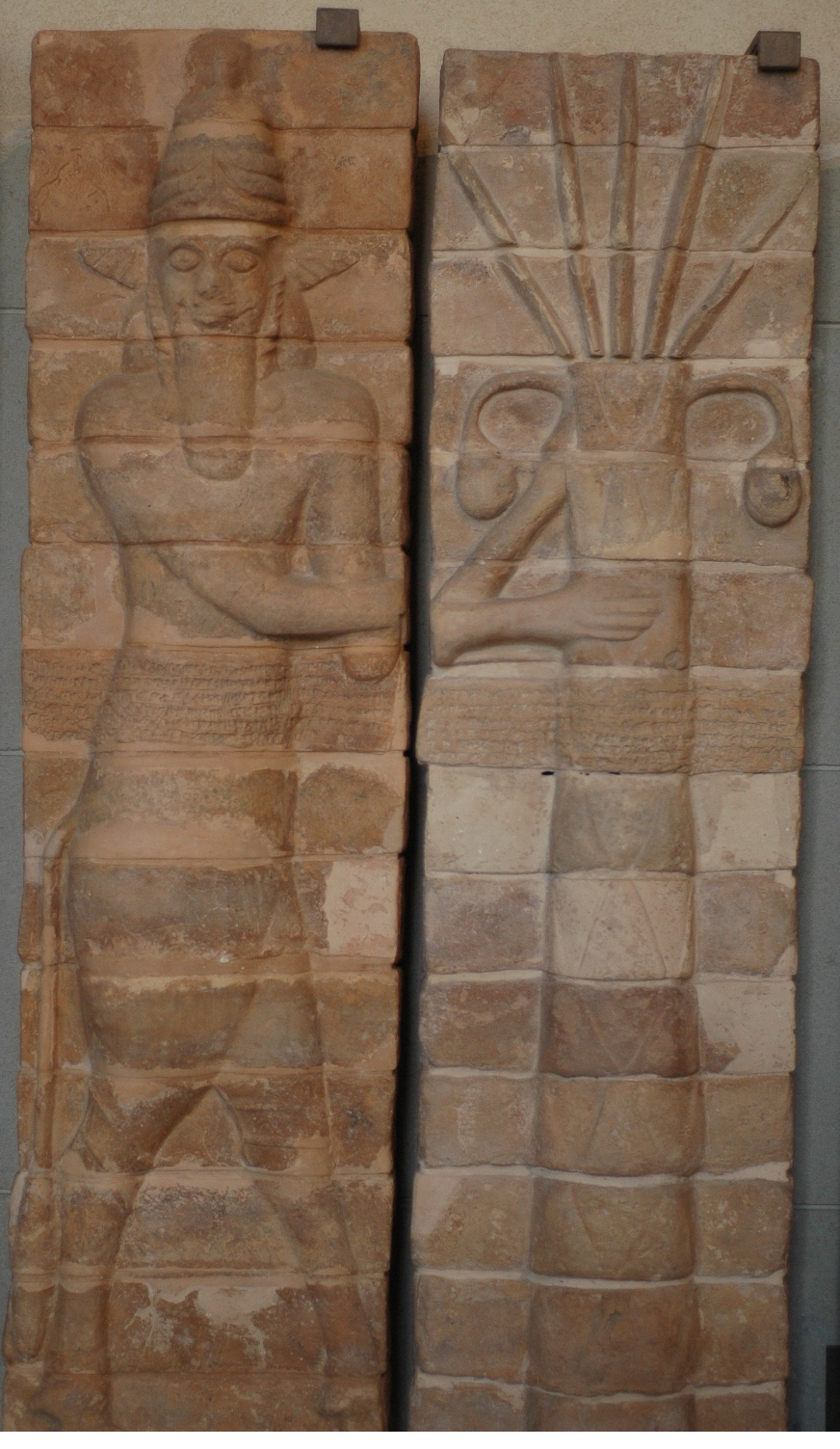 Bull-man protecting a palmtree, detail from a panel of molded bricks (1940s reconstruction). Terracotta, middle 12th century BC. Found at the Tell of the Apadana in Susa. The inscription running along the central band record that Shilhak-Inshushinak made a statue of brick for the exterior chapel of Inshushinak.